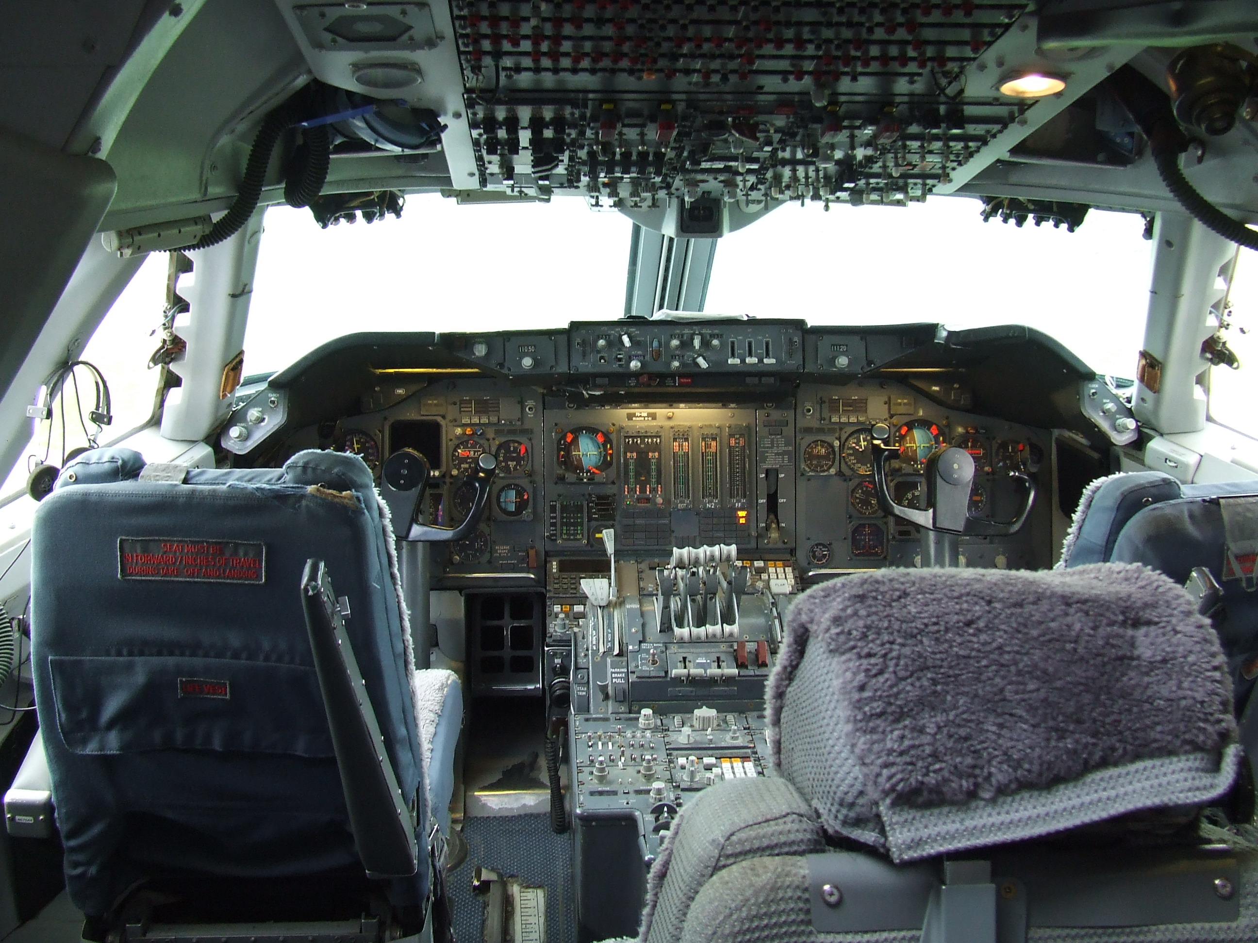 Cockpit of Boeing 747-200 (PH-BUK) "Louis Bleriot" at Aviodrome Lelystad